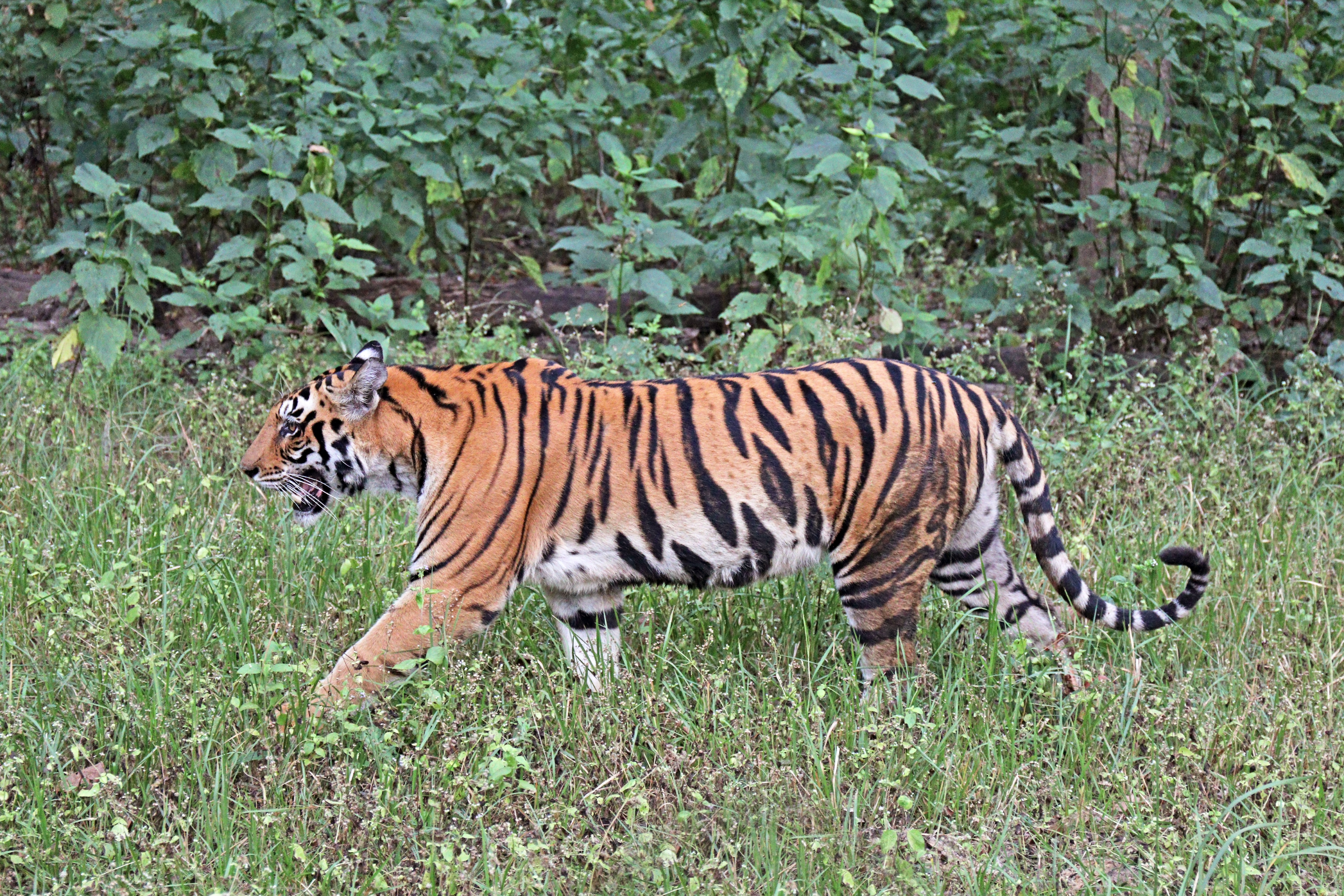 Bengal tiger (Panthera tigris tigris) female, Kanha National Park, MP, India